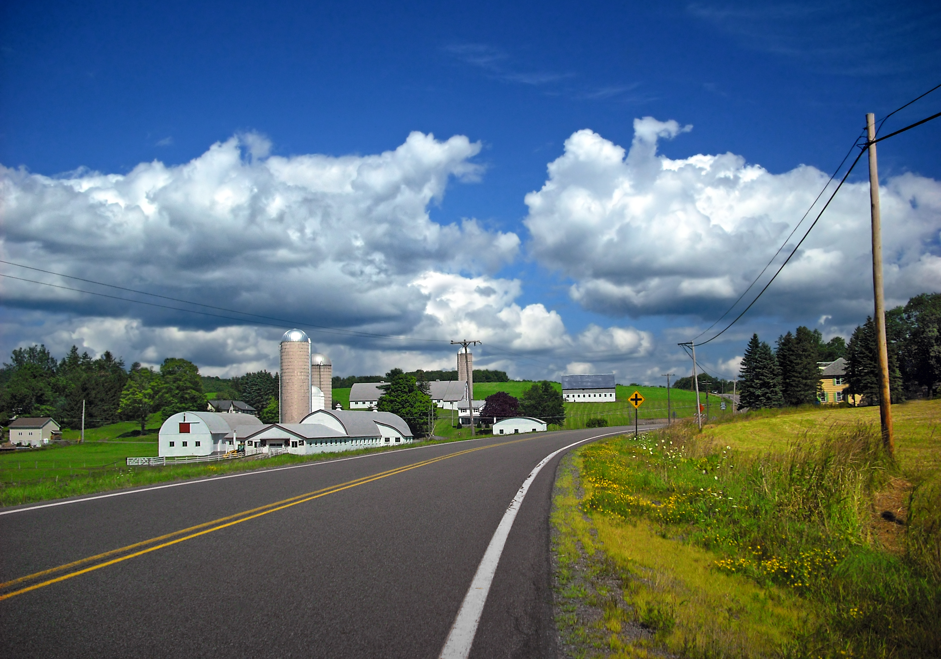 Roadside farm, Preston Township, Wayne County.